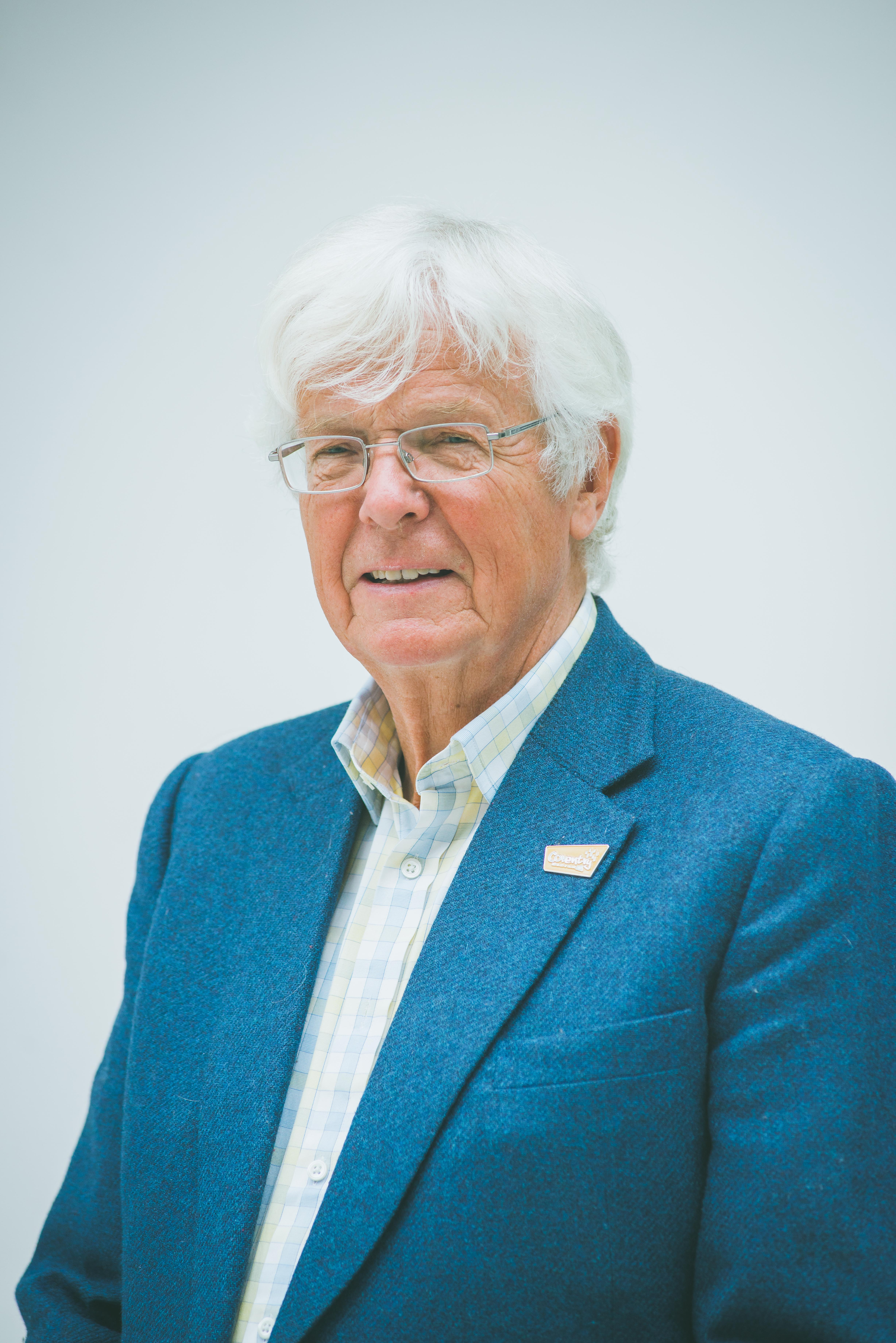 David Burbidge Wikipedia Photo